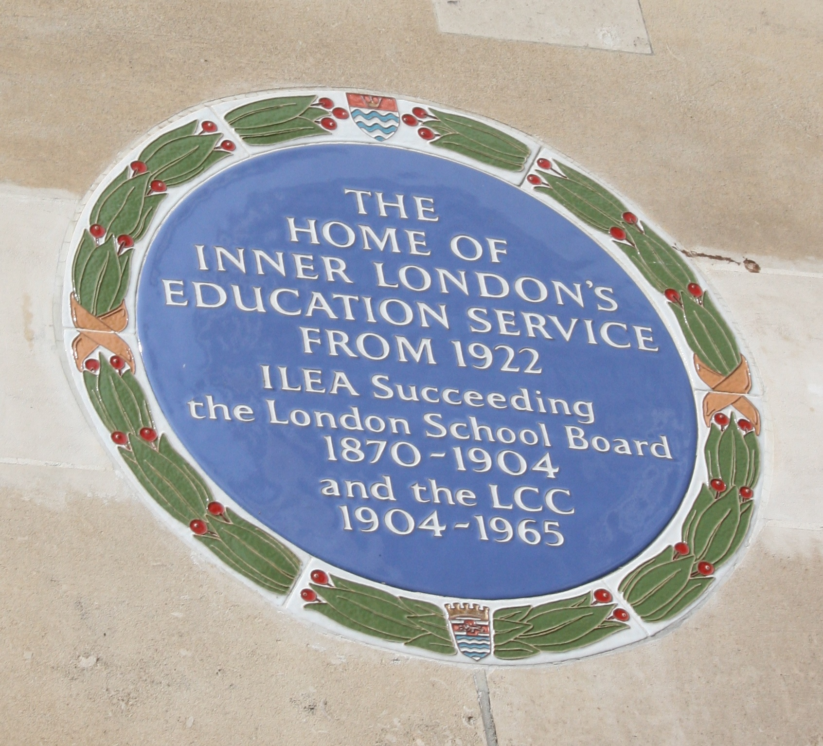 Derivative of